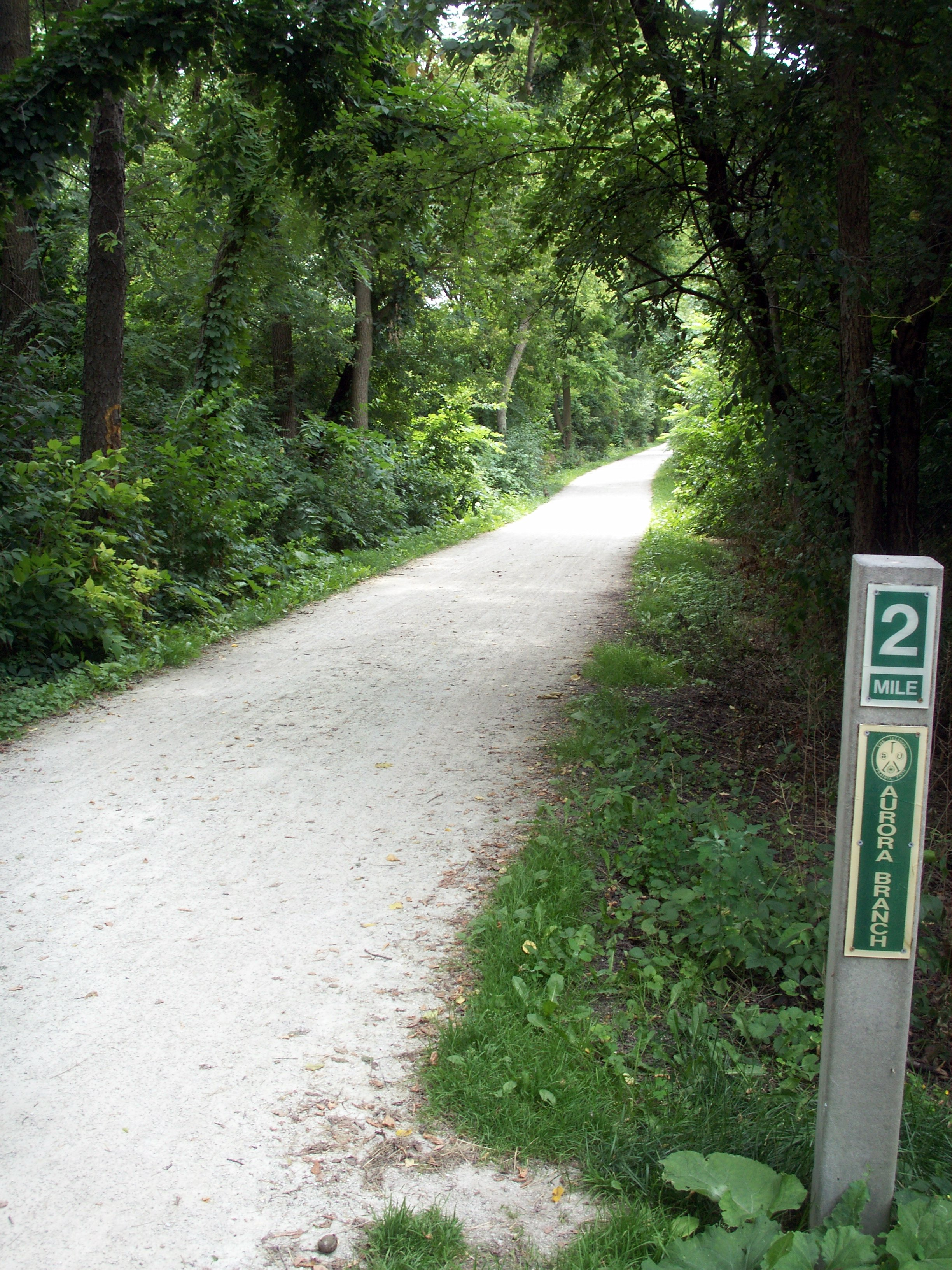 2-mile marker of the Aurora Branch of the Illinois Prairie Path in Wheaton, Illinois.